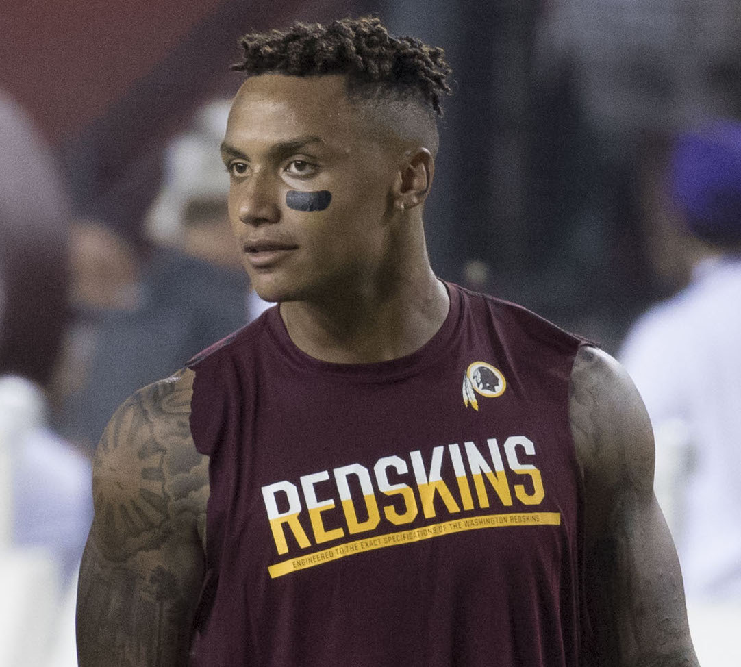 Washington Redskins linebacker/safety, Su'a Cravens, after a preseason game against the Buffalo Bills on August 26, 2016.